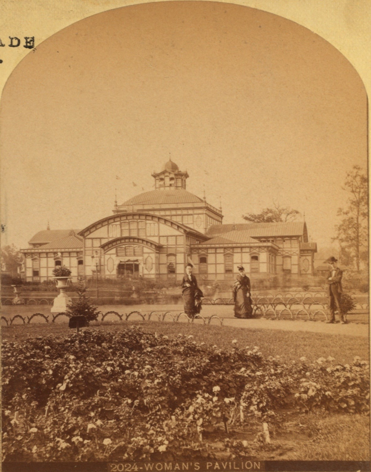 Right hand side of our photo Woman's pavilion, by Centennial Photographic Co..PNG